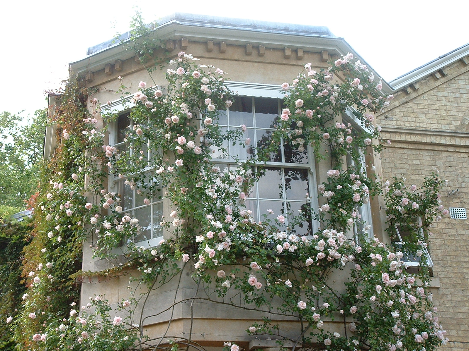 Taken by Satinder SinghThe Grove (description from User:SS1981/Images/Fitzwilliam_College)Fitzwilliam College, Cambridge (additional description by JackyR)